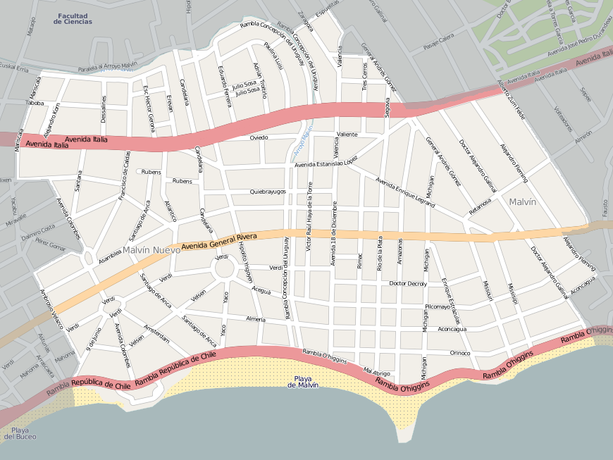 Street map of Malvín, Montevideo, exported from OpenStreetMap. I added shading to delimit the barrio. This map may be incomplete, and may contain errors. Don't rely solely on it for navigation.